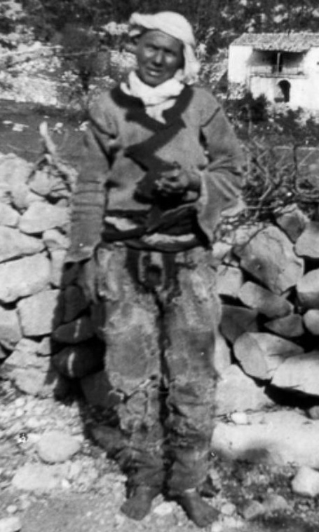 Photograph by Edith Durham of a sworn virgin, cropped to focus on the person.